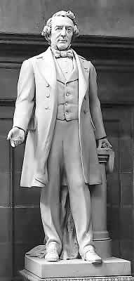 Statue of Henry Mower Rice at NSHC